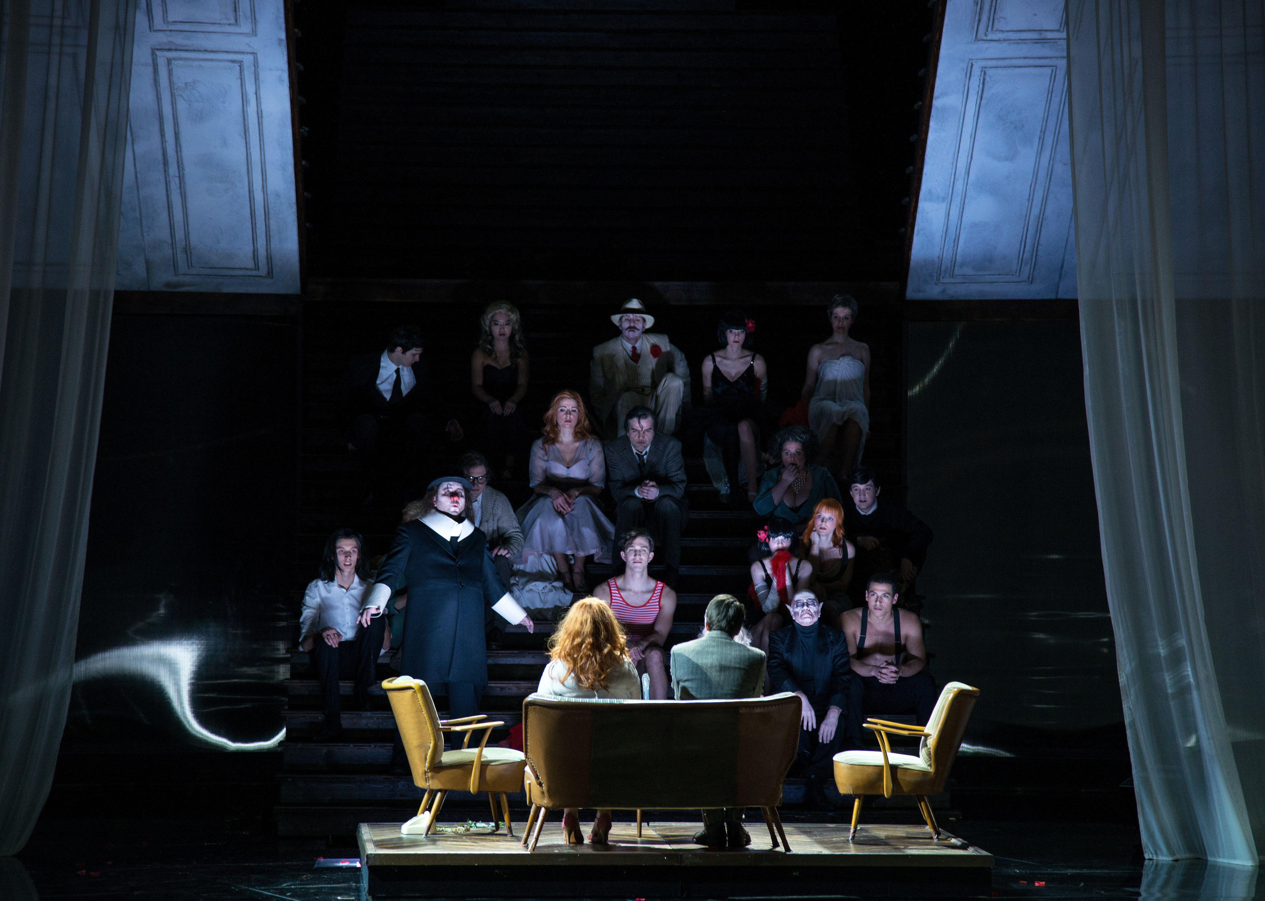 Graz Opera House